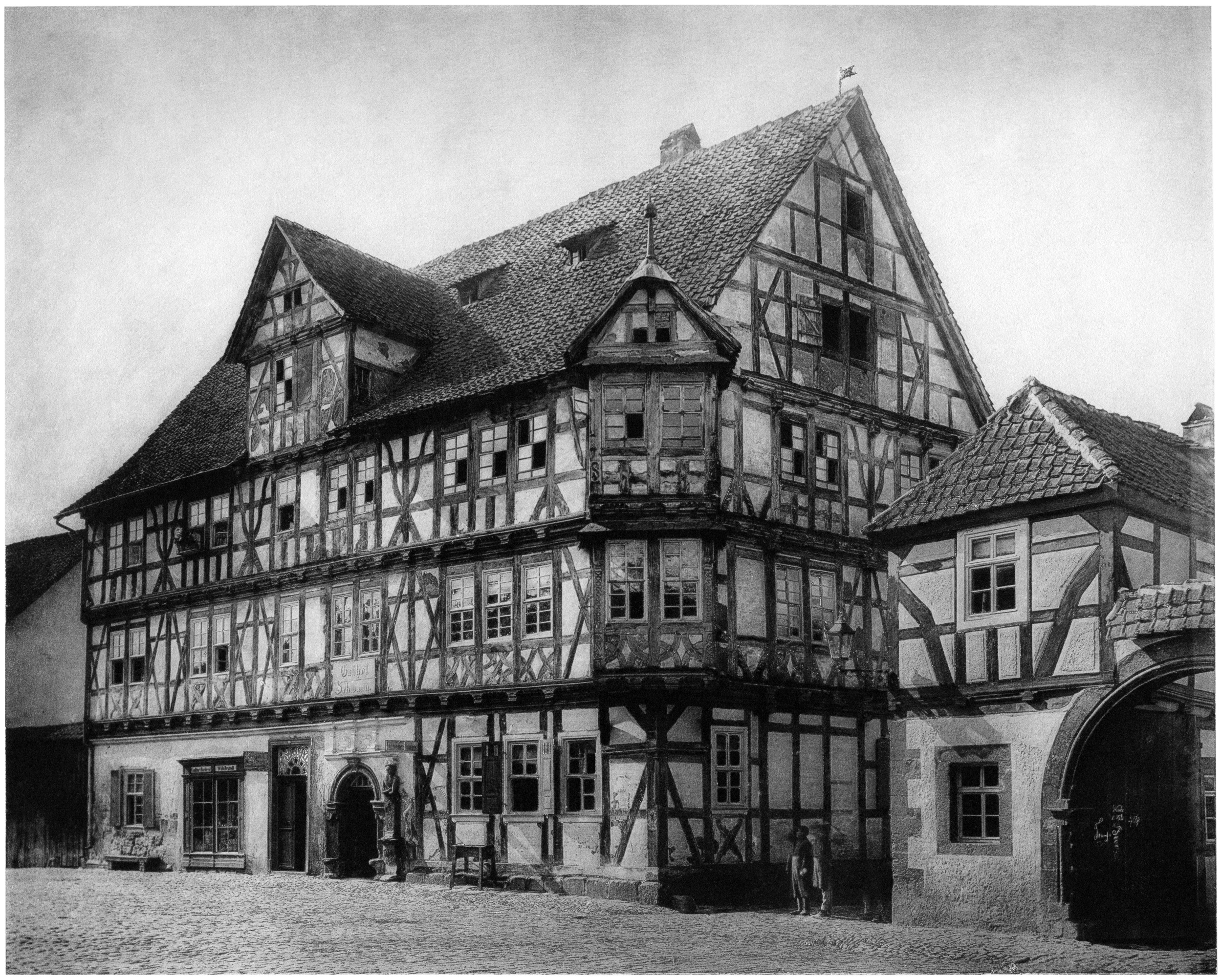 Table 25 / Title on the table: Wanfried Guesthouse to the Swan c. 1600 / Index title: Wanfried. The Swan.